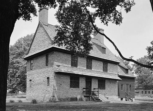 Brinton 1704 House — Oakland Road in Birmingham Township. Dilworthtown vicinity — Delaware County, Pennsylvania. A Historic American Buildings Survey—HABS image. (cropped)